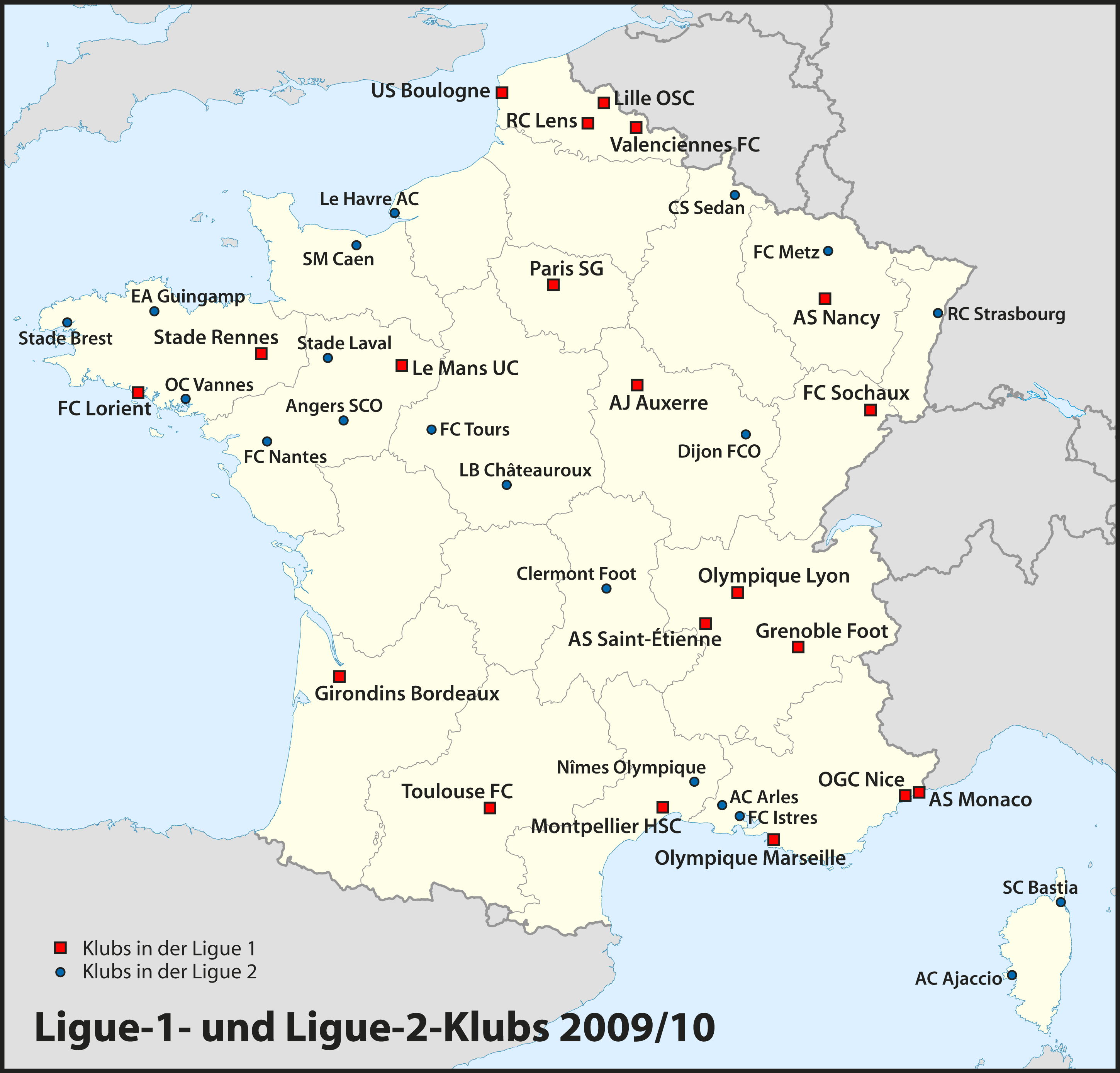 Map of the Ligue 1 and Ligue 2 teams for 2009/10 season